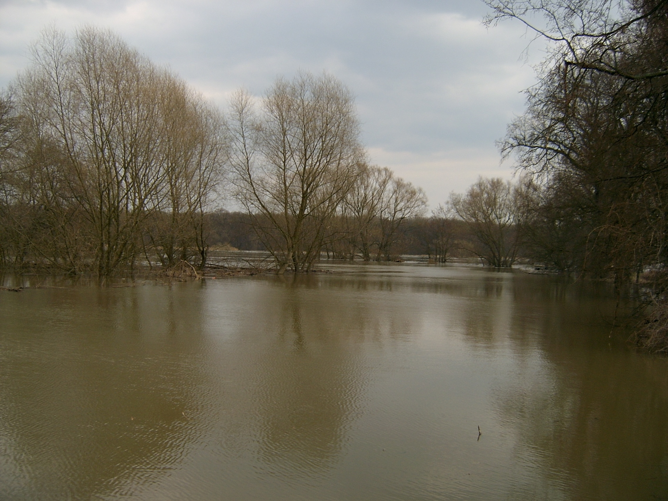 Alte Oder, branch of Oder River, on high water in Frankfurt (Oder), Brandenburg, Germany